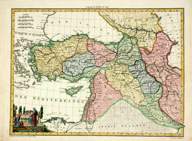 Turquie D'Asie Attractive hand colored antique map of Asia Minor, Cyprus, Syria, Persia, Armenia, Iraq etc.